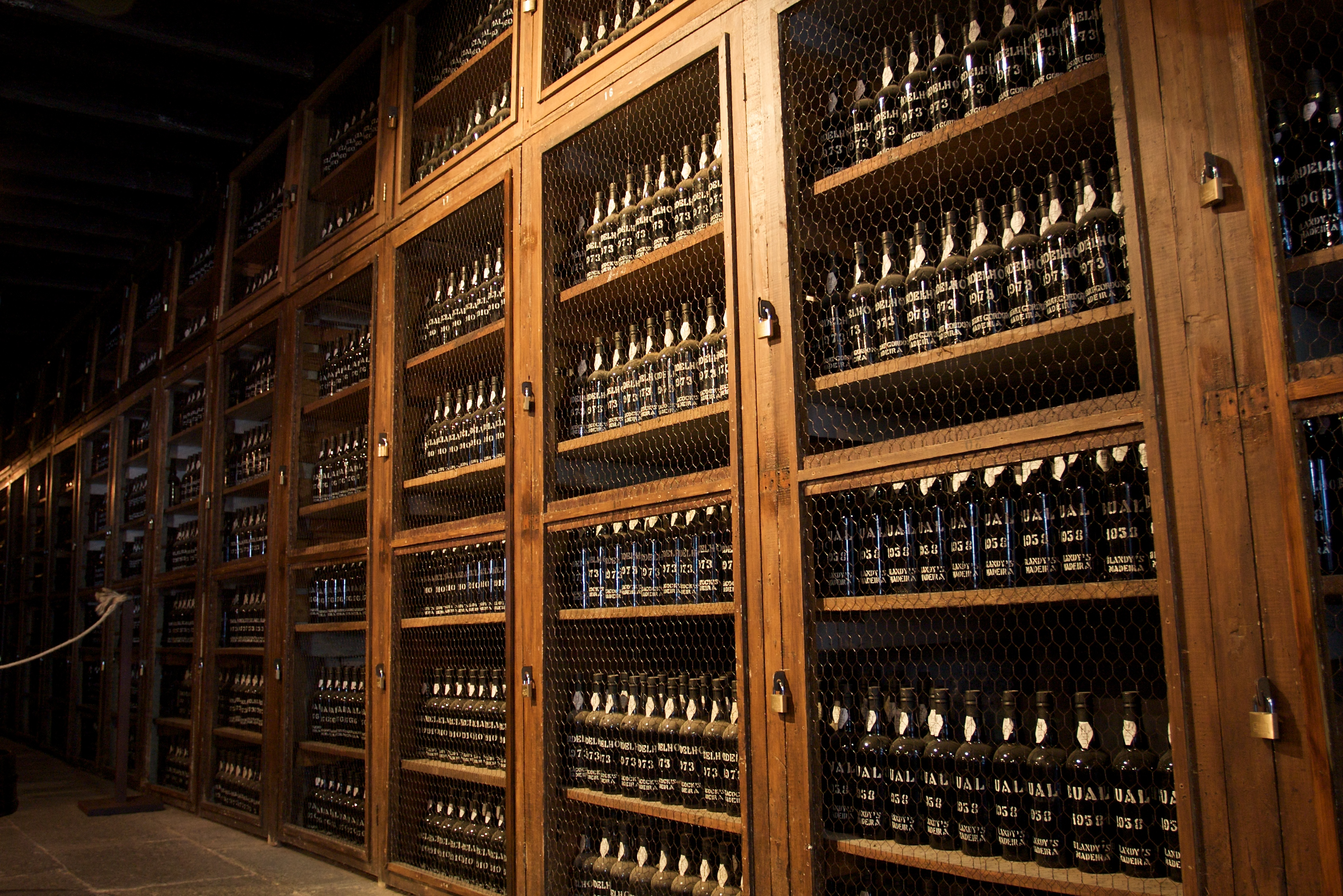 Blandy's wine storage of vintage Madeira wine.